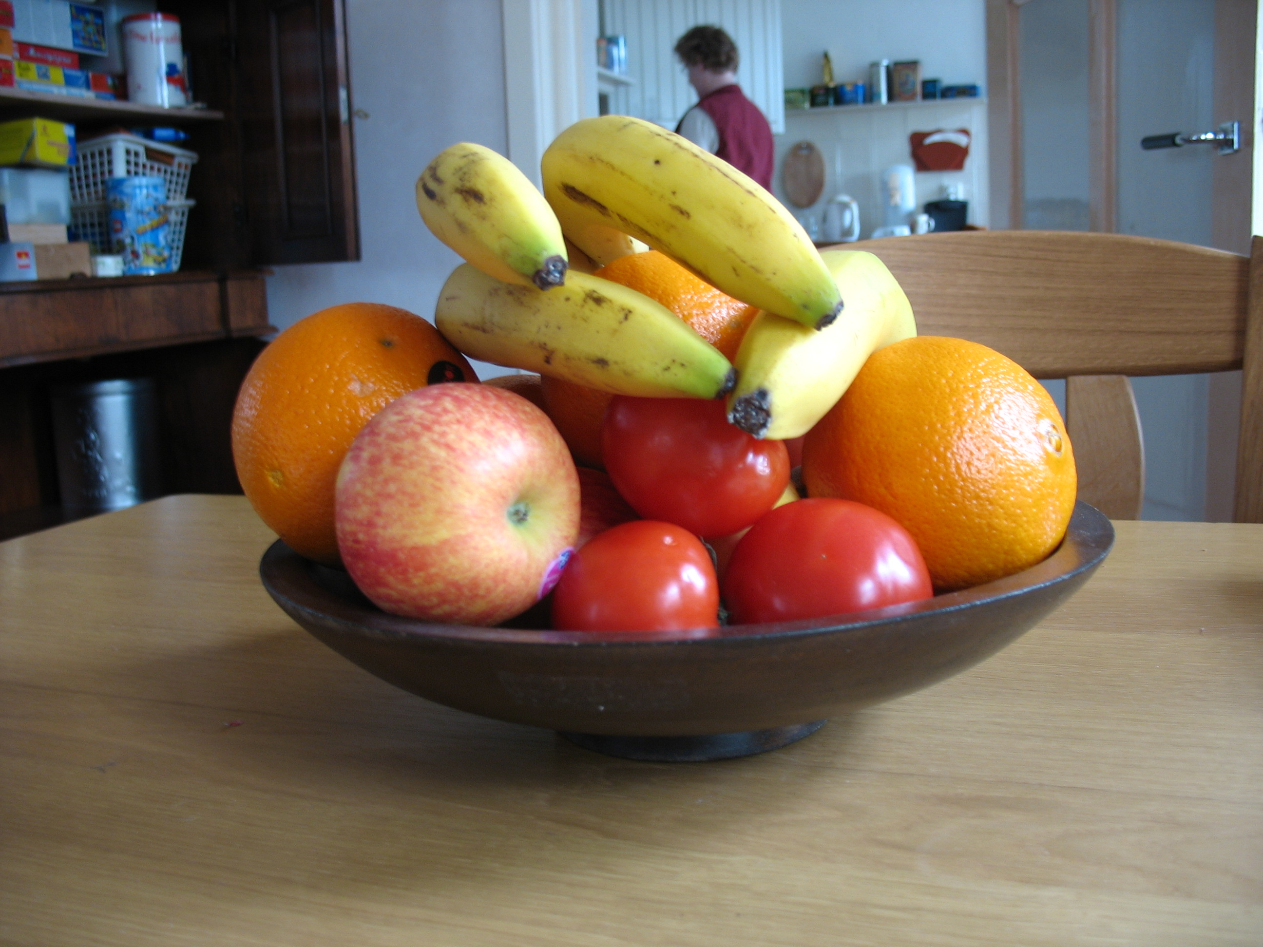 Mixed fruits in a bowl